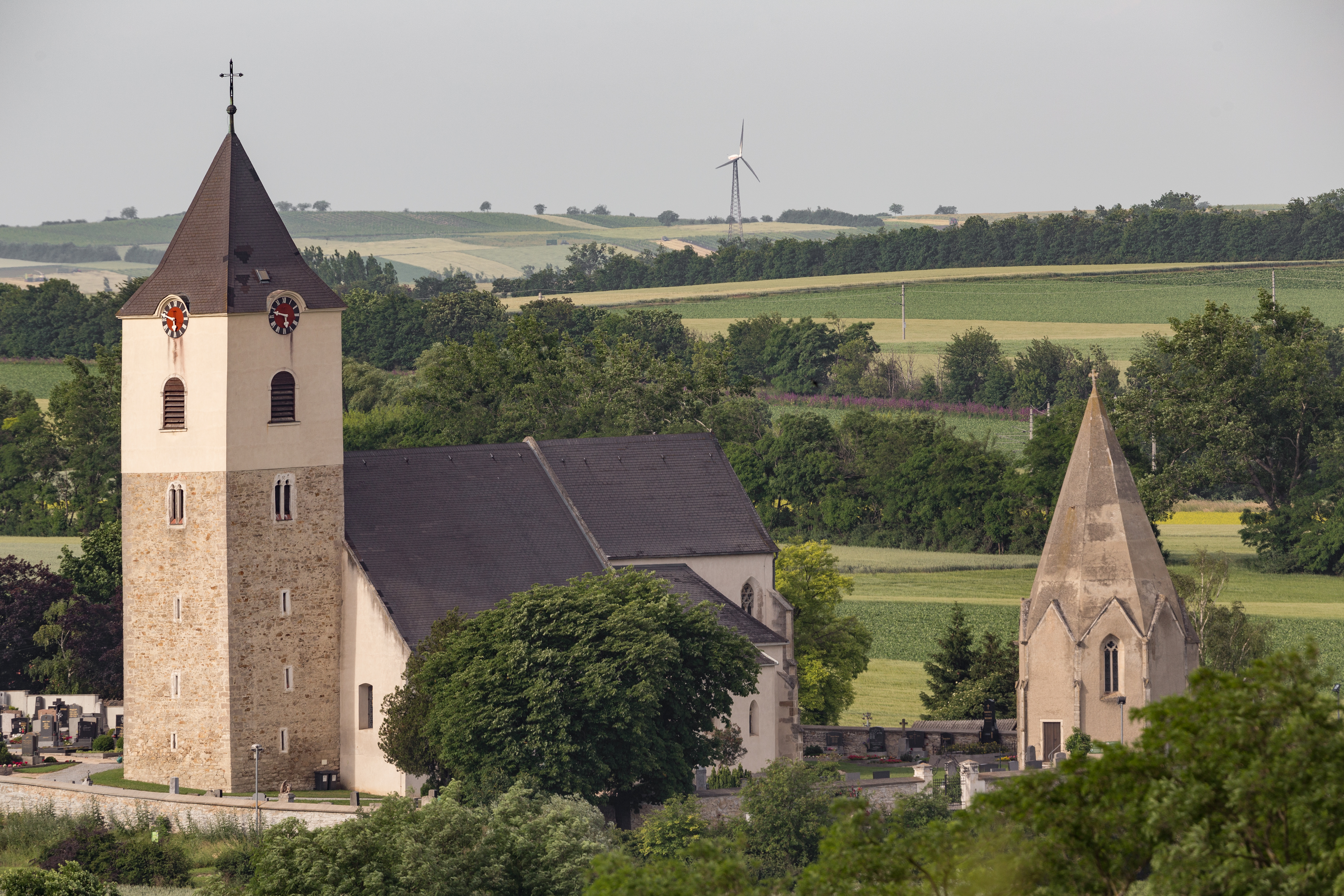 Catholic parish church Saints Philipp and James the Greater, Zellerndorf, Weinviertel, Lower Austria